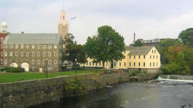 Cropped picture of the Slater Mill, on the Blackstone River, in Pawtucket, Rhode Island.